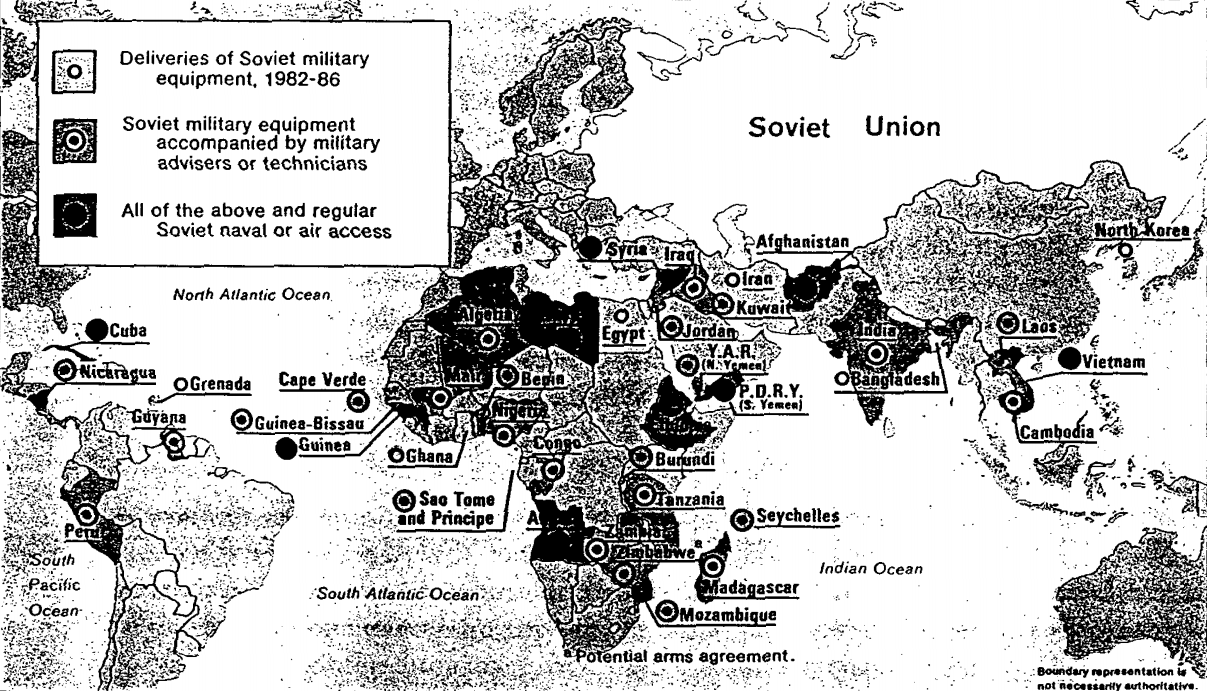 Soviet Foreign Military Assistance as of May 1987 (extracted from the Top Secret Interagency Intelligence Memorandum.)